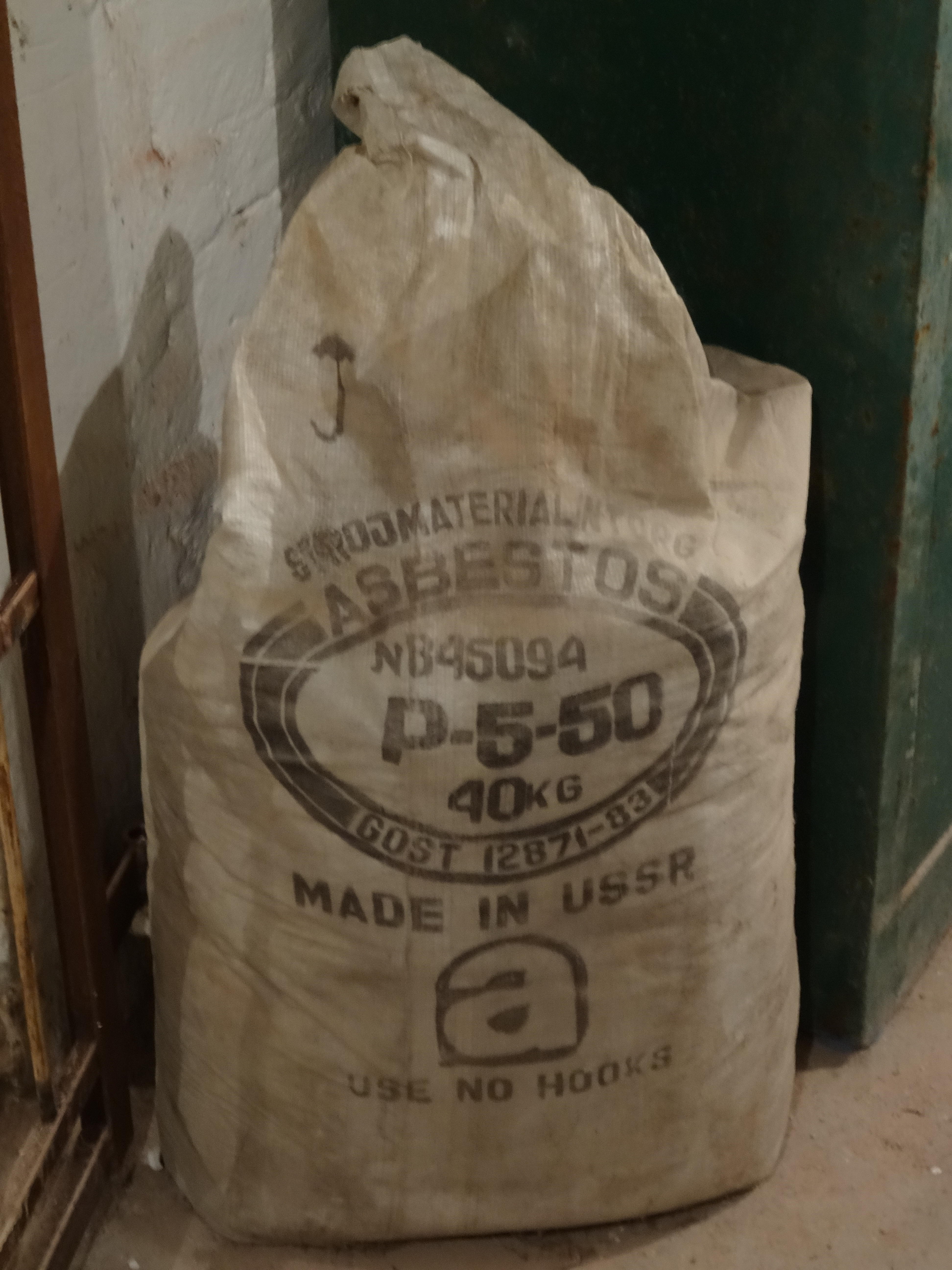 Russian made asbestos, after 1983. No EHS info. Chrysotile asbestos (asbokroshka) - treated asbestos fibers consists of a mixture of fibers of different lengths.